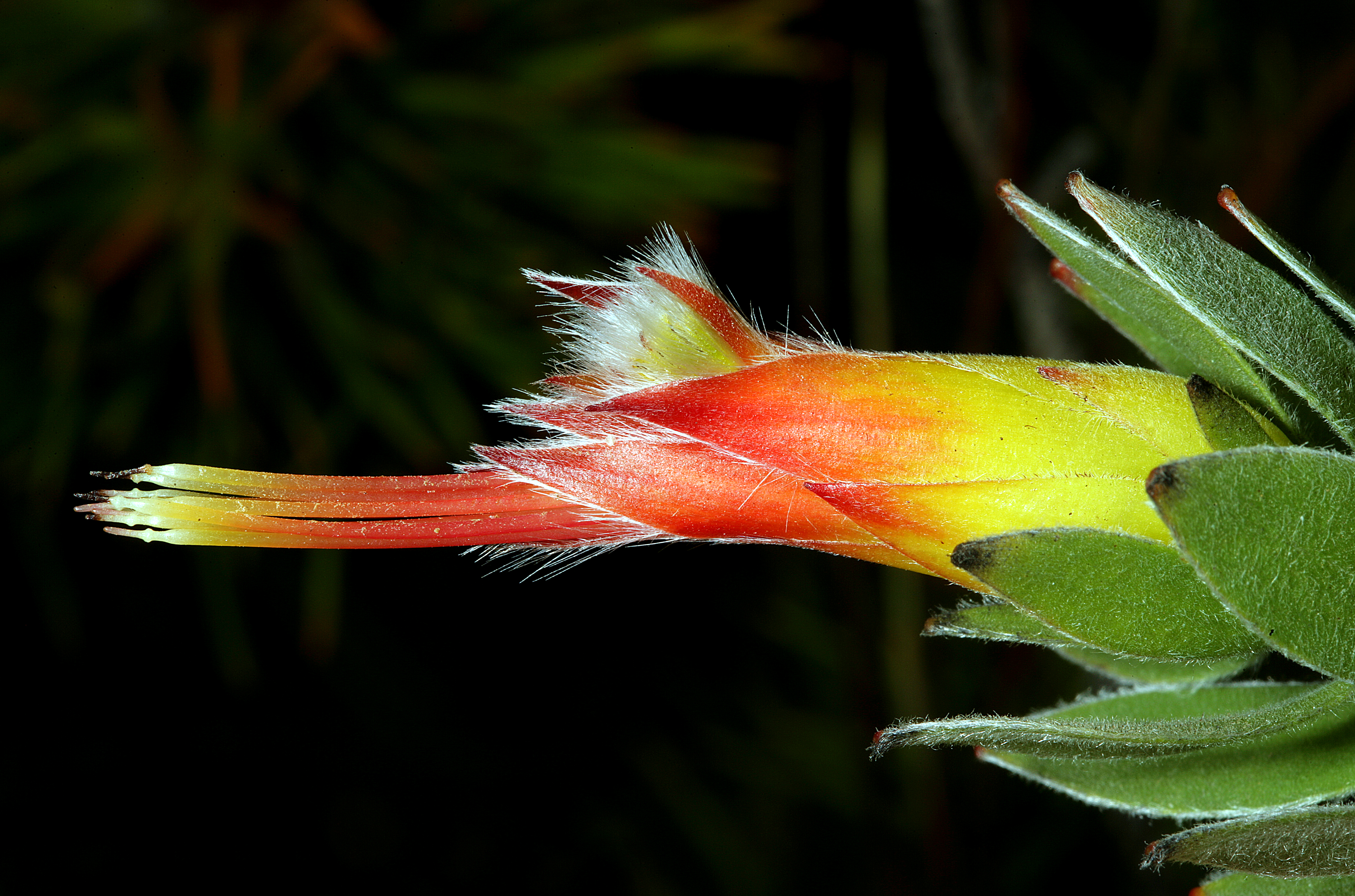 Mimetes hirtus, partial inflorescence; natural population in relict stand of coastal fynbos on vacant plot not yet developed for housing, Betty's Bay, Western Cape, South Africa